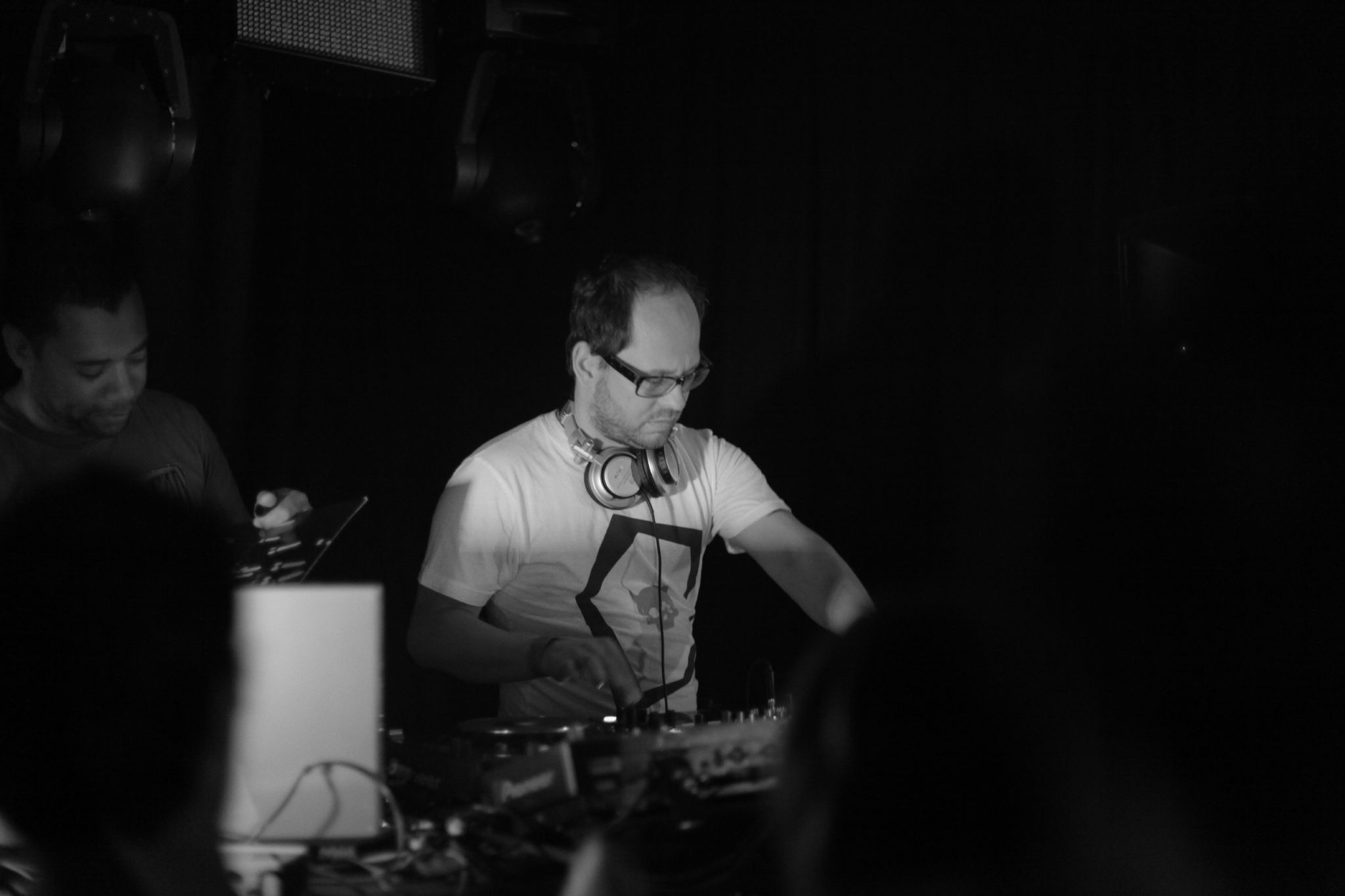 Oliver Huntemann